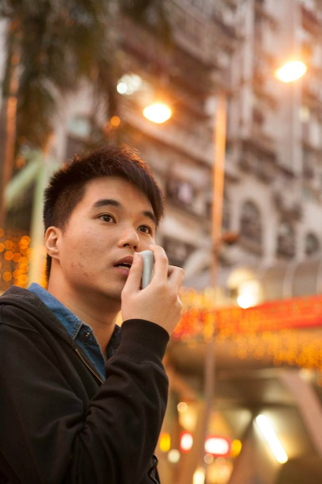 Sou Ka Hou 2014